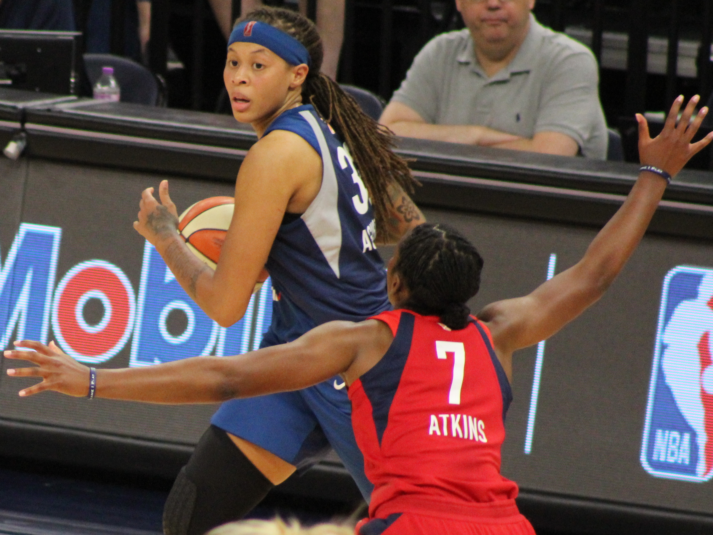 Seimone Augustus of the Minnesota Lynx and Ariel Atkins of the Washington Mystics